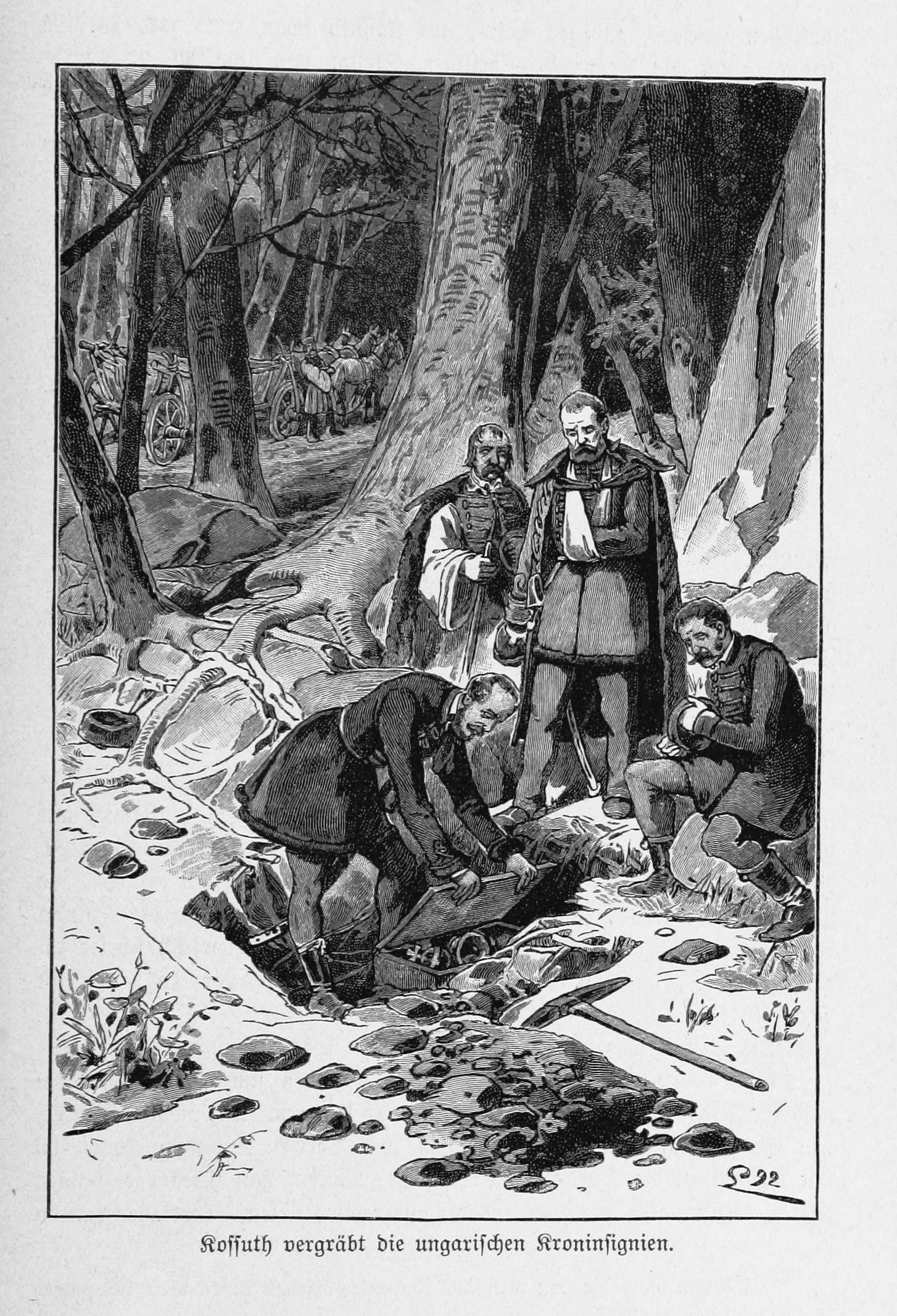 Image extracted from page 619 of Die deutsche Revolution. Geschichte der deutschen Bewegung von 1848 und 1849 ... Illustrirt, etc', by BLOS, Wilhelm (1893). Original held and digitised by the British Library. Copied from Flickr. Note: The colours, contrast and appearance of these illustrations are unlikely to be true to life. They are derived from scanned images that have been enhanced for machine interpretation and have been altered from their originals.